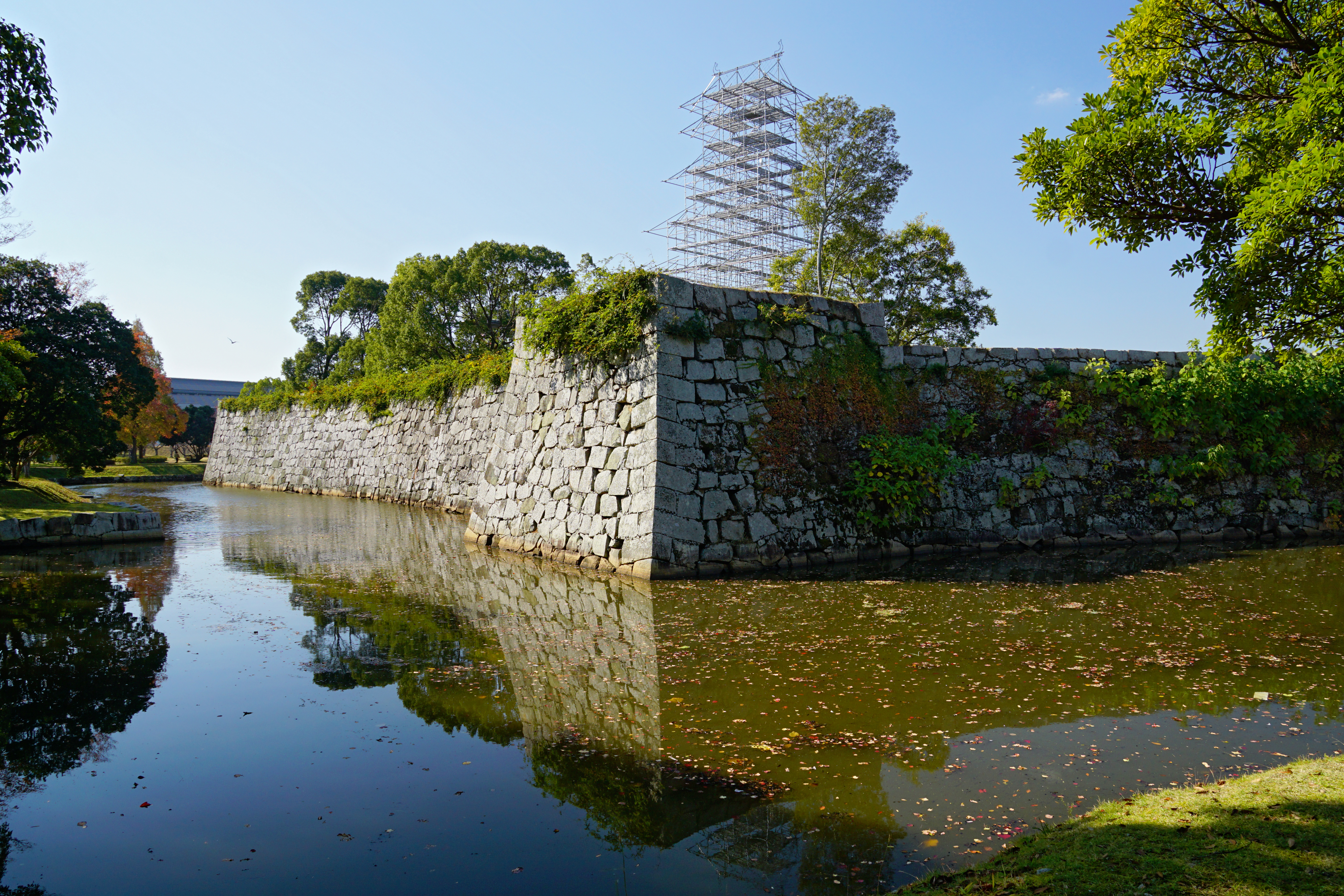 Akō Castle in Ako, Hyogo prefecture, Japan.